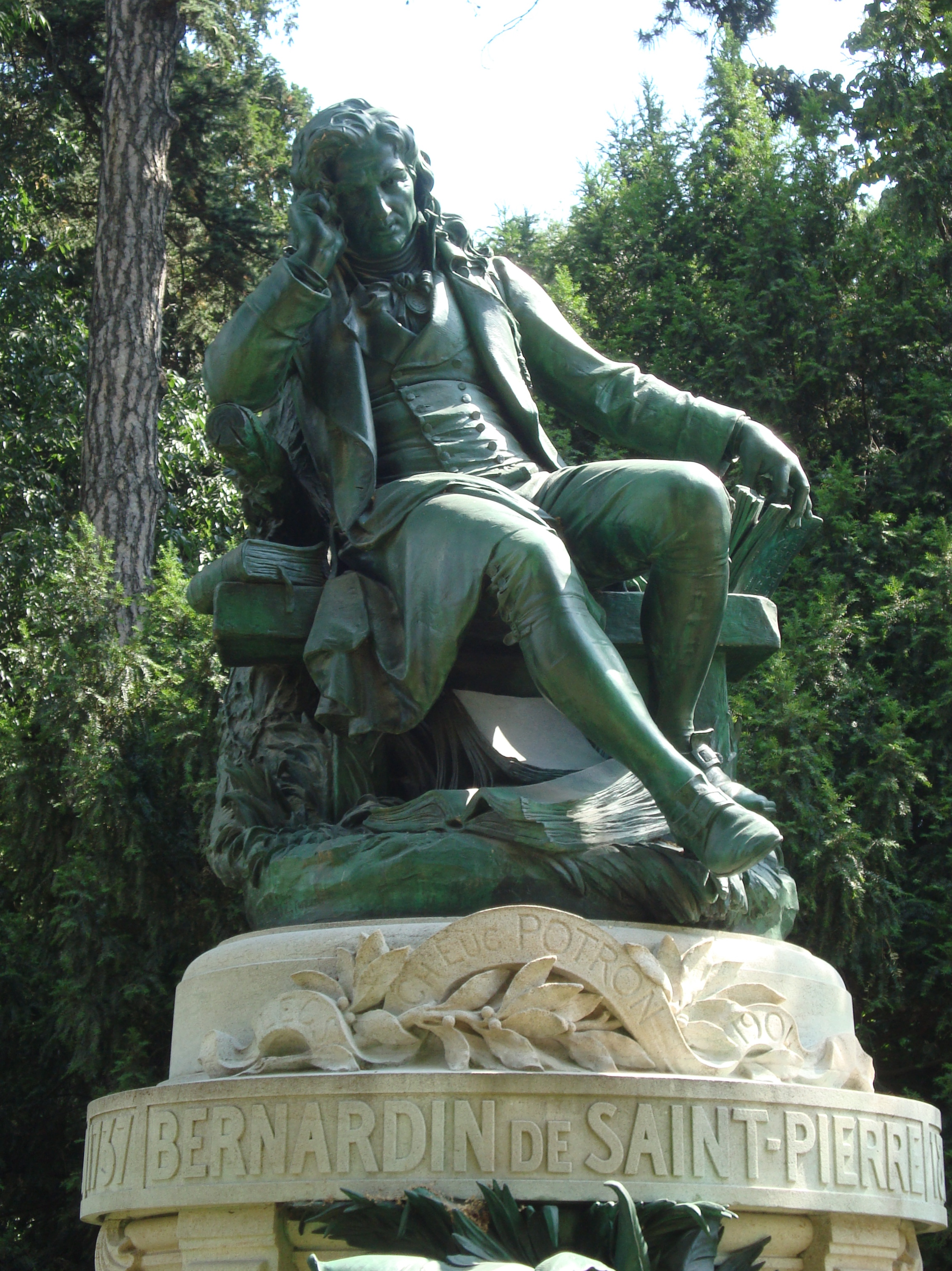 Statue of Jacques-Henri Bernardin de Saint-Pierre in the Jardin des plantes de Paris.